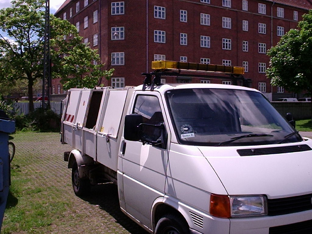 Small waste truck servicing public dustbins along the roads and in the parks in Copenhagen, Denmark